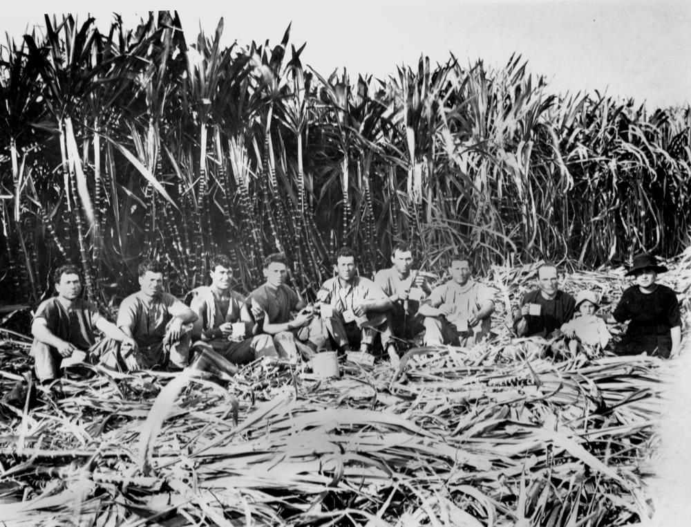 Italian sugar cane cutters, Innisfail District, Queensland, 1923 Italian sugar cane workers taking a tea break in the cane fields, Innisfail District, in 1923. Left to right: R. Cavallaro, F. Leonardi, P. Zaia, A. D'Urso, M. Bonanna, S. Zappalo, L. D'Urso, G. Lizzio, Alfio Lizzio (child) and Carmela Lizzio (cook).